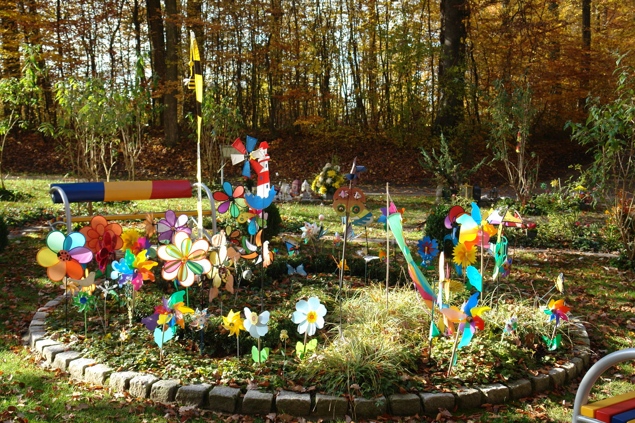 Communal grave "Butterfly" on the Bergfriedhof cemetry in Tübigen, Germany